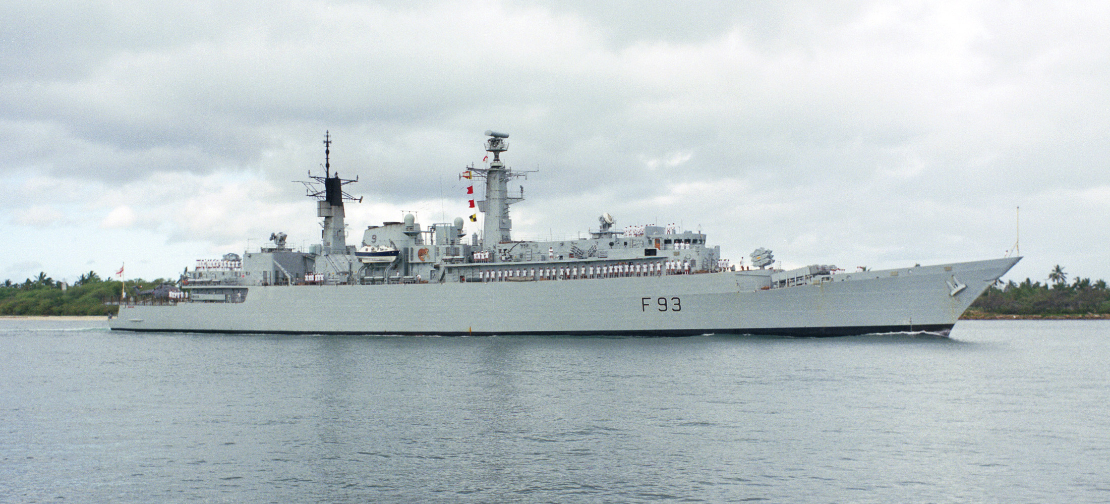 A starboard beam view of the British frigate HMS Beaver (F93) entering port at Pearl Harbor, Hawaii, during Exercise RIMPAC '86.